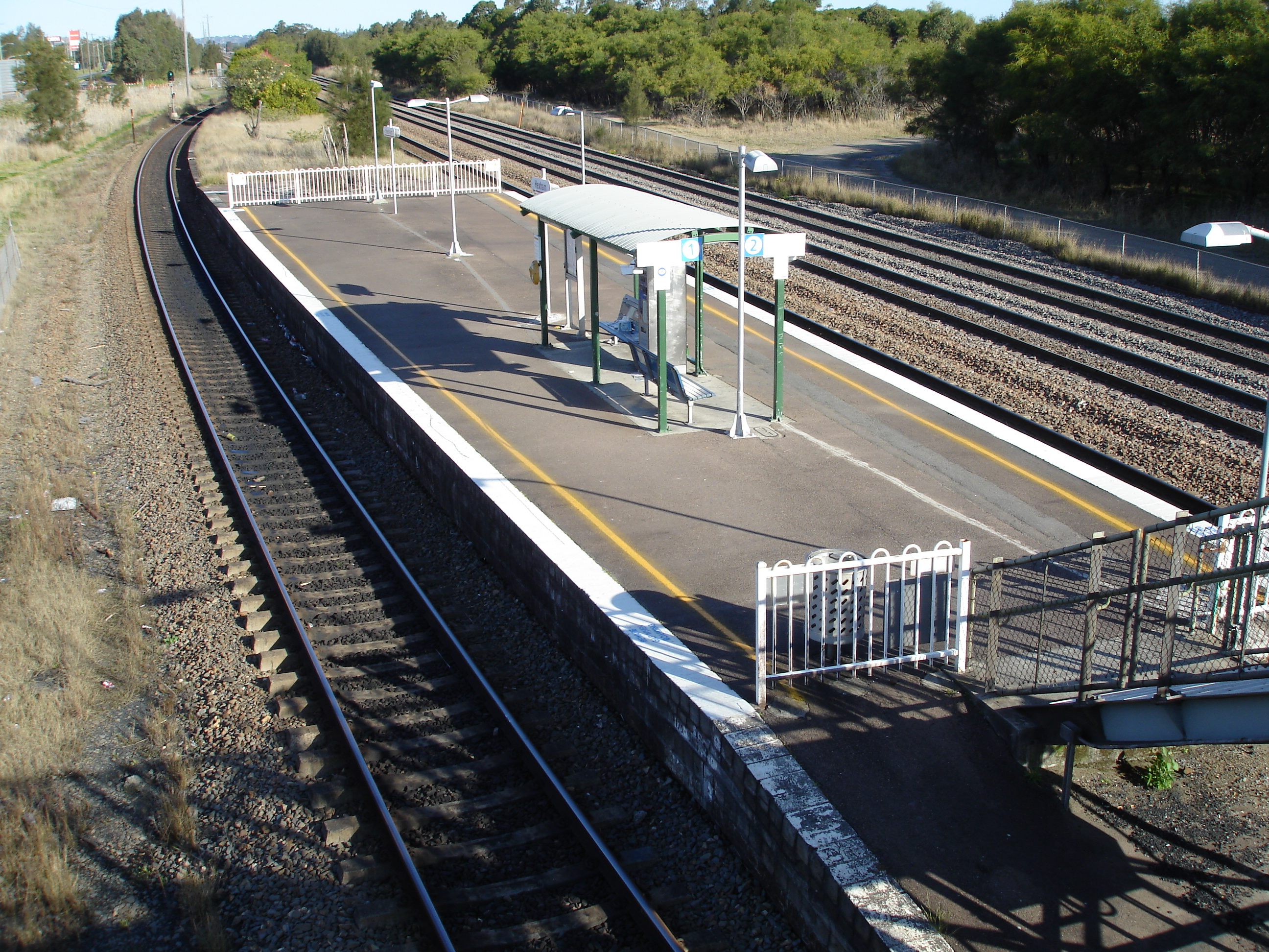 Hexham, New South Wales, Australia railway station, taken by MrTwig.